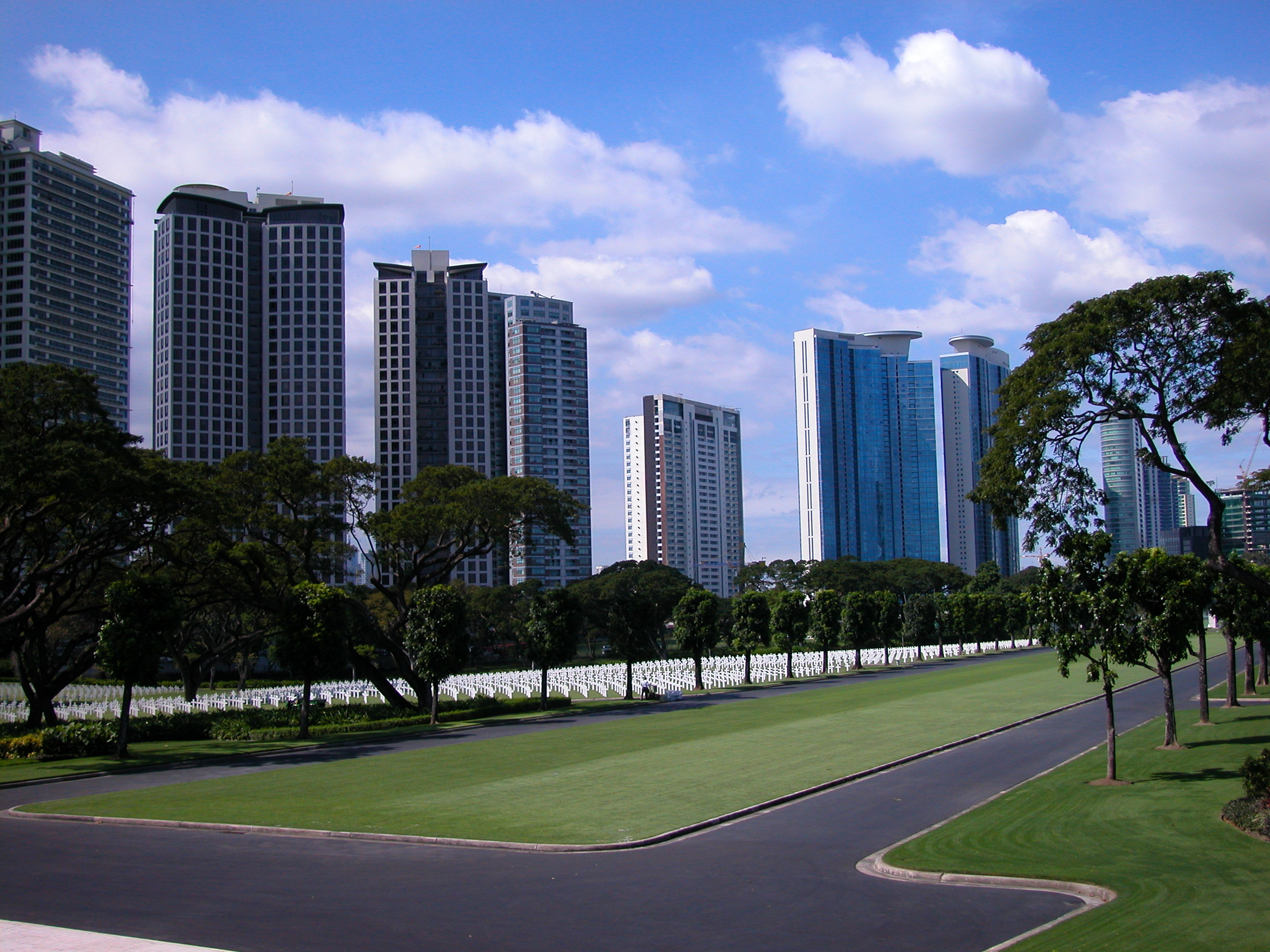 American Memorial Cemetery and at the background: Global City, Taguig, Rizal, Philippines.